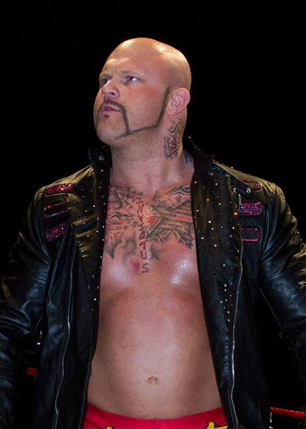 Image of "Bad Bones" John Klinger at wXw "16 Carat Gold" in 2015